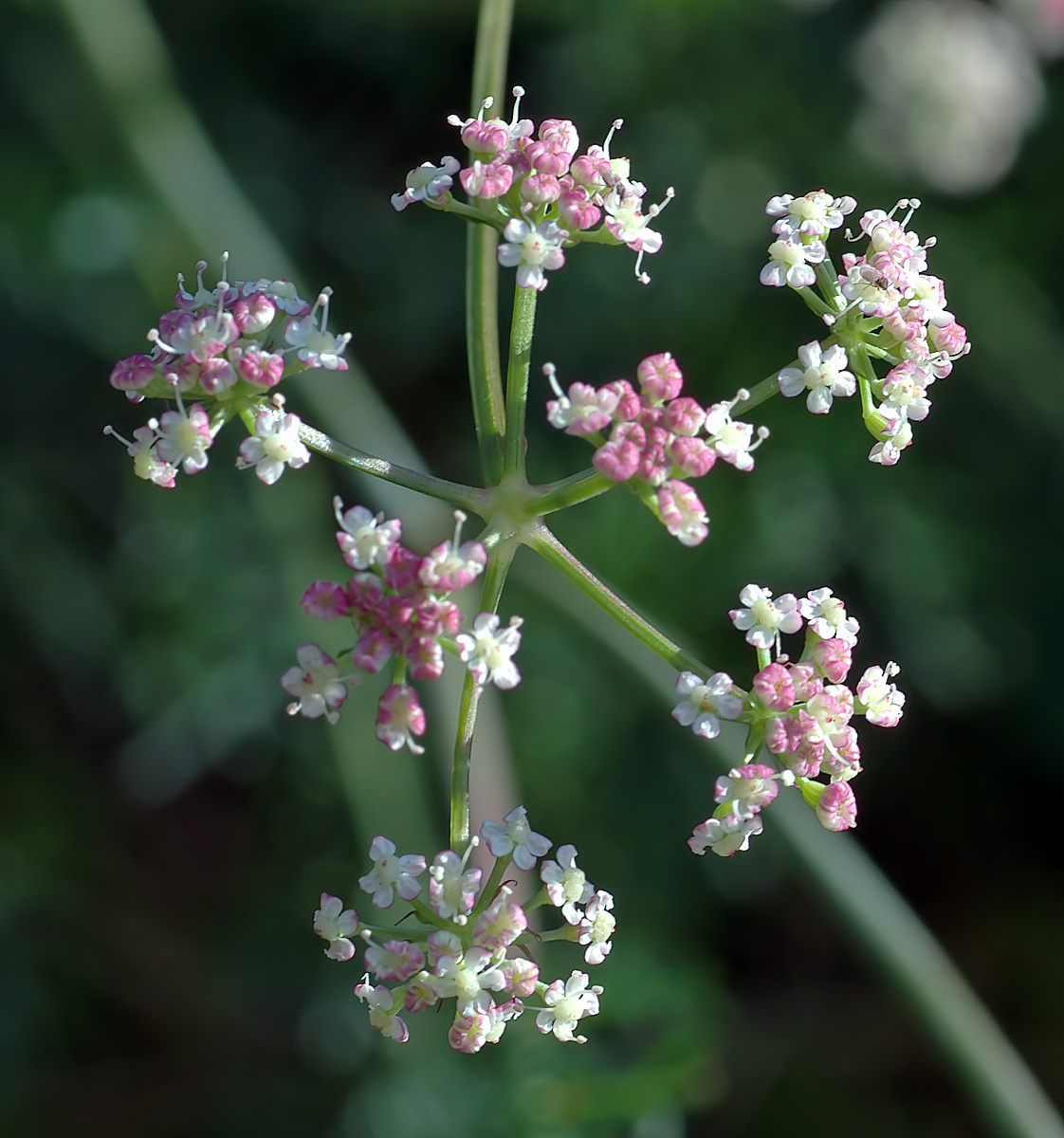 This image shows a blossom of an Alpine Lovage plant (Ligusticum mutellina).